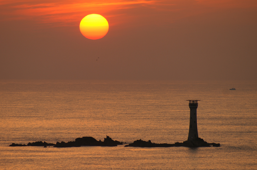 If only as a way of demonstrating the change in density of the ash cloud over the last 3 days. Here is what I imagine will be my final photo of a Volcanic Ash Sunset. It's about time I took pictures of something else. As you can see, the cloud is much less thick, and the skies are generally clearer today. I've just found out that the UK flight ban has been lifted, so let's hope it stays that way. Let's also hope for the safe travel of planes that do fly through it. For full detail, Please View Large on Black